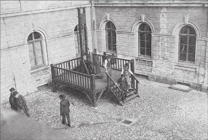 Mounting the gouillotine (fallbeil) for Grete Beier's execution on July 23, 1908